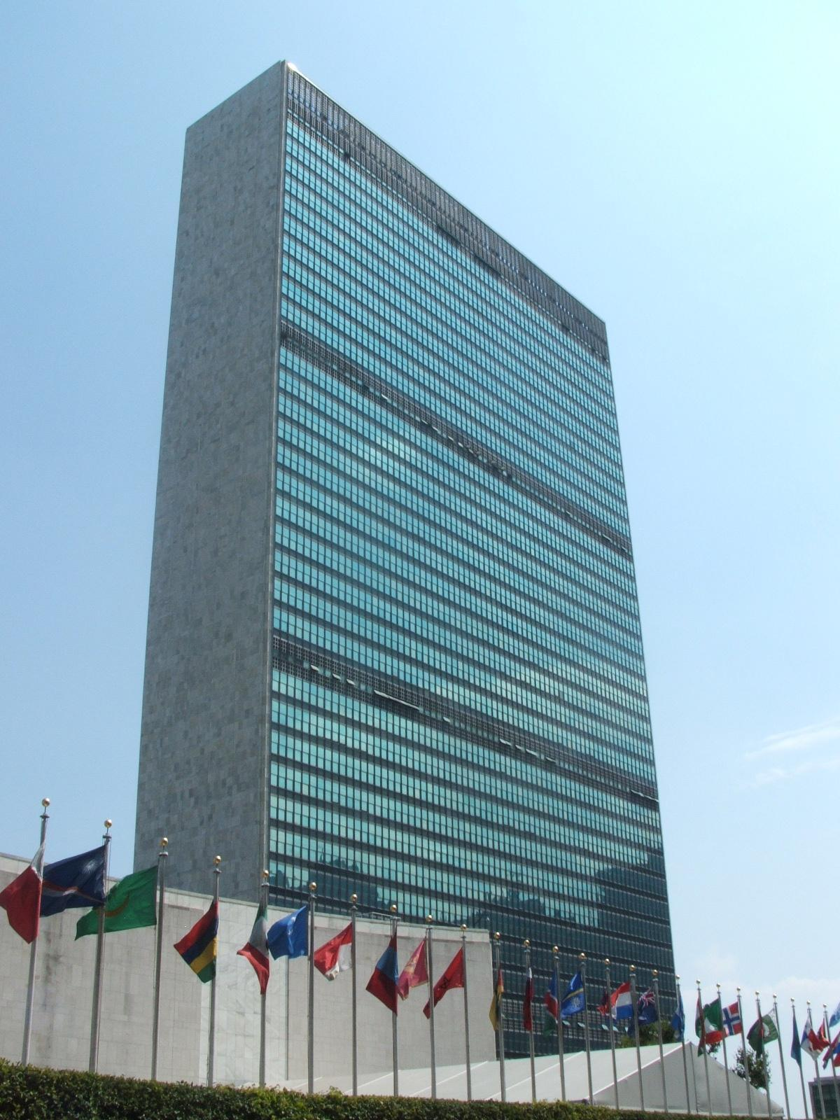 UN Headquarters, New York City. The United Nations Headquarters in Manhattan, New York City, USA., Manhattan.